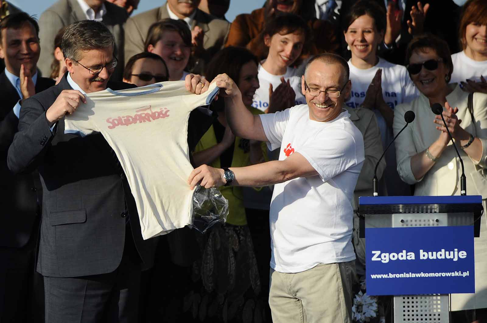 Bronisław Komorowski i Jerzy Borowczak